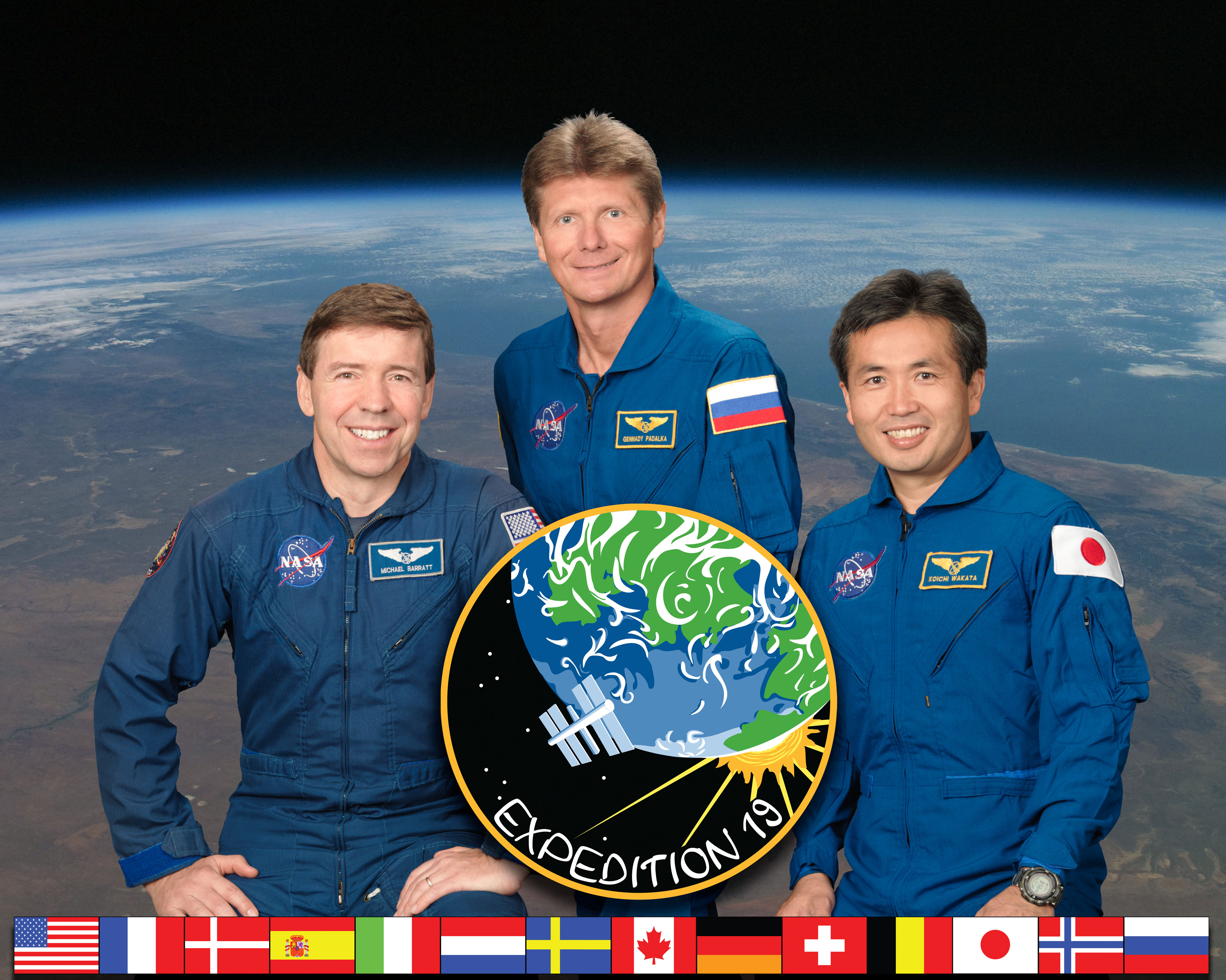 Equipage de l'expédition 19 vers l'ISS. ISS019-S-002 --- Cosmonaut Gennady Padalka (center), Expedition 19 commander; NASA astronaut Michael Barratt (left) and Japan Aerospace Exploration Agency (JAXA) astronaut Koichi Wakata, both flight engineers, take a break from training at NASA's Johnson Space Center to pose for a crew portrait. Padalka and Barratt are scheduled to launch to the International Space Station in the Soyuz TMA-14 spacecraft from the Baikonur Cosmodrome in Kazakhstan in March 2009. Wakata will fly to the station on STS-119 and will serve as a flight engineer for Expeditions 18 and 19.